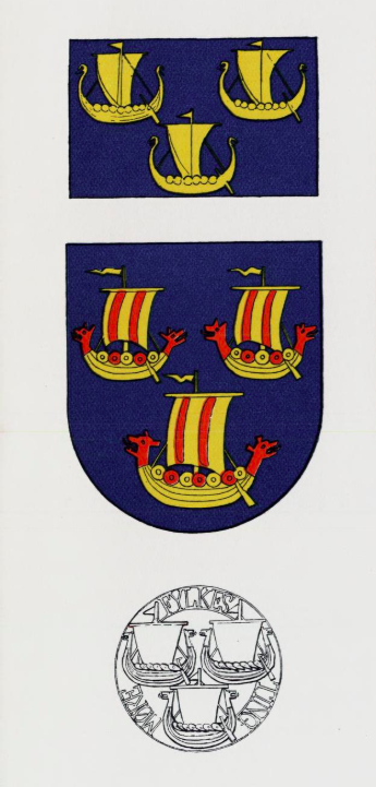 Møre fylkesvåpen forslag av Hallvard Trætteberg 1930